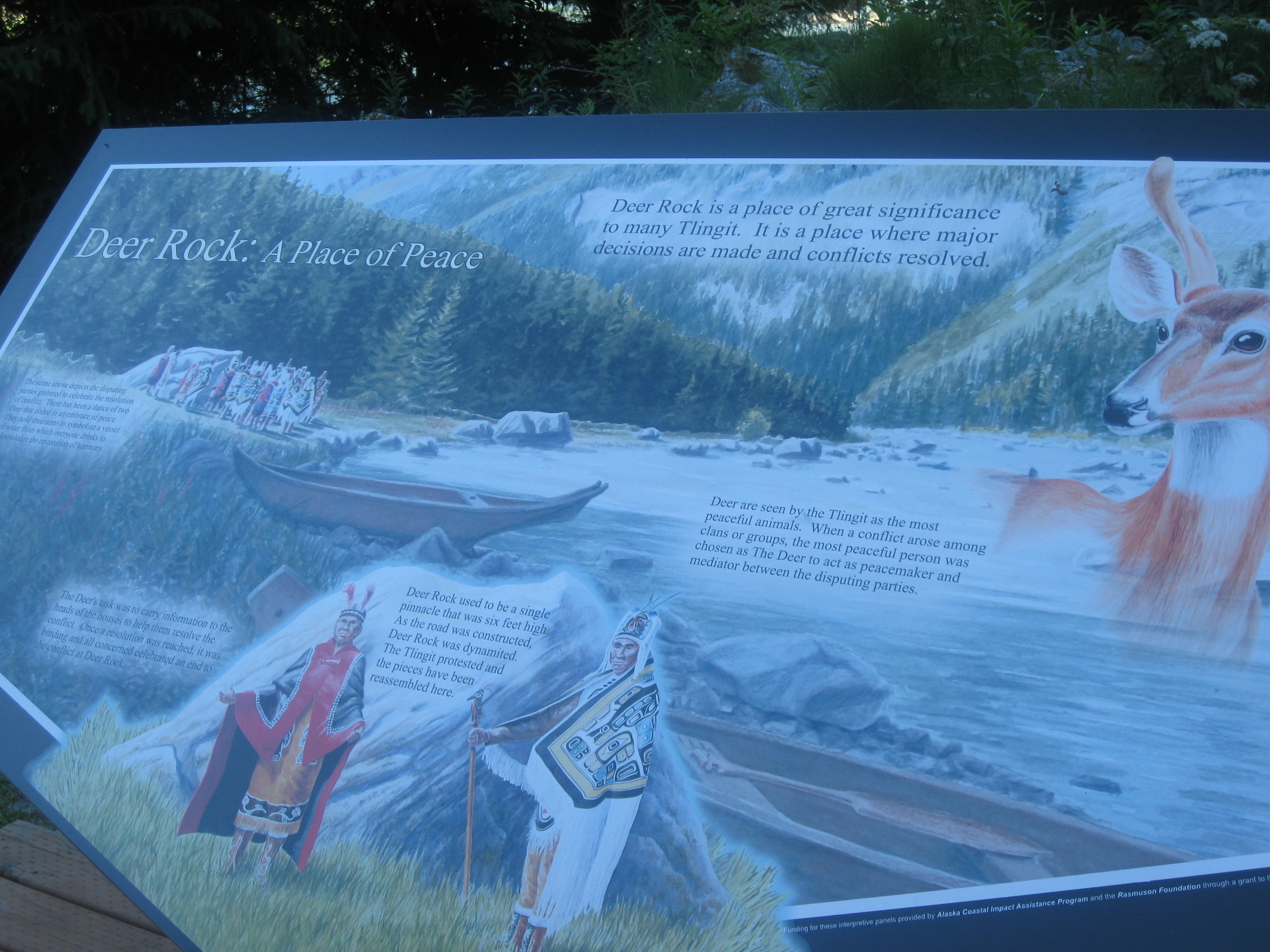 A plaque near Deer Rock